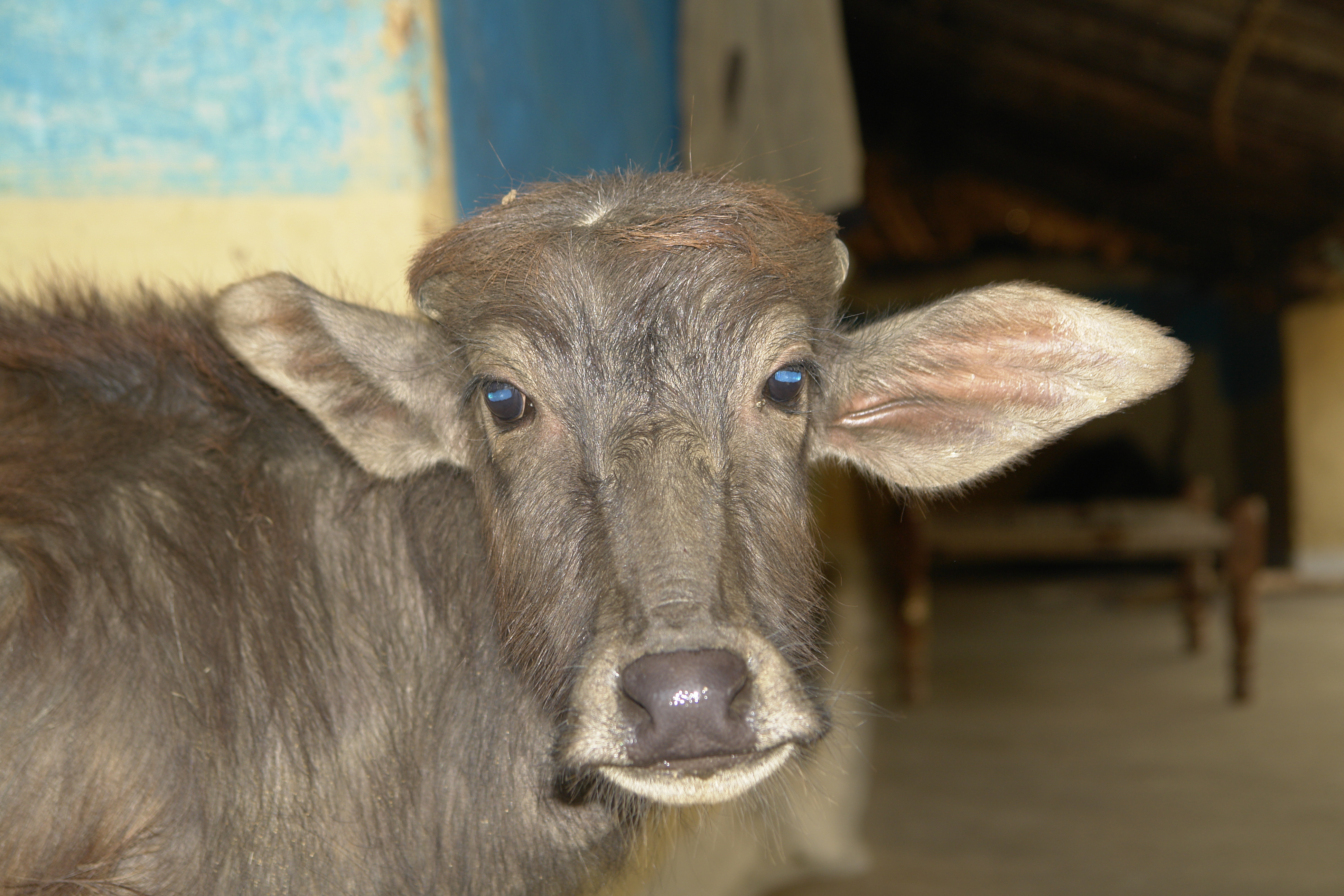 Water buffalo calf (Bubalus bubalis), district Raisen, M.P., India.